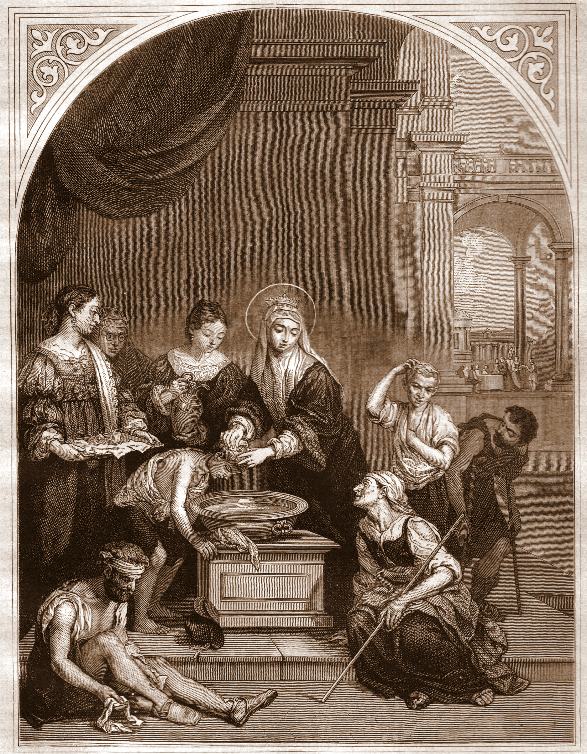 Saint Elisabeth of Hungary working for a poors